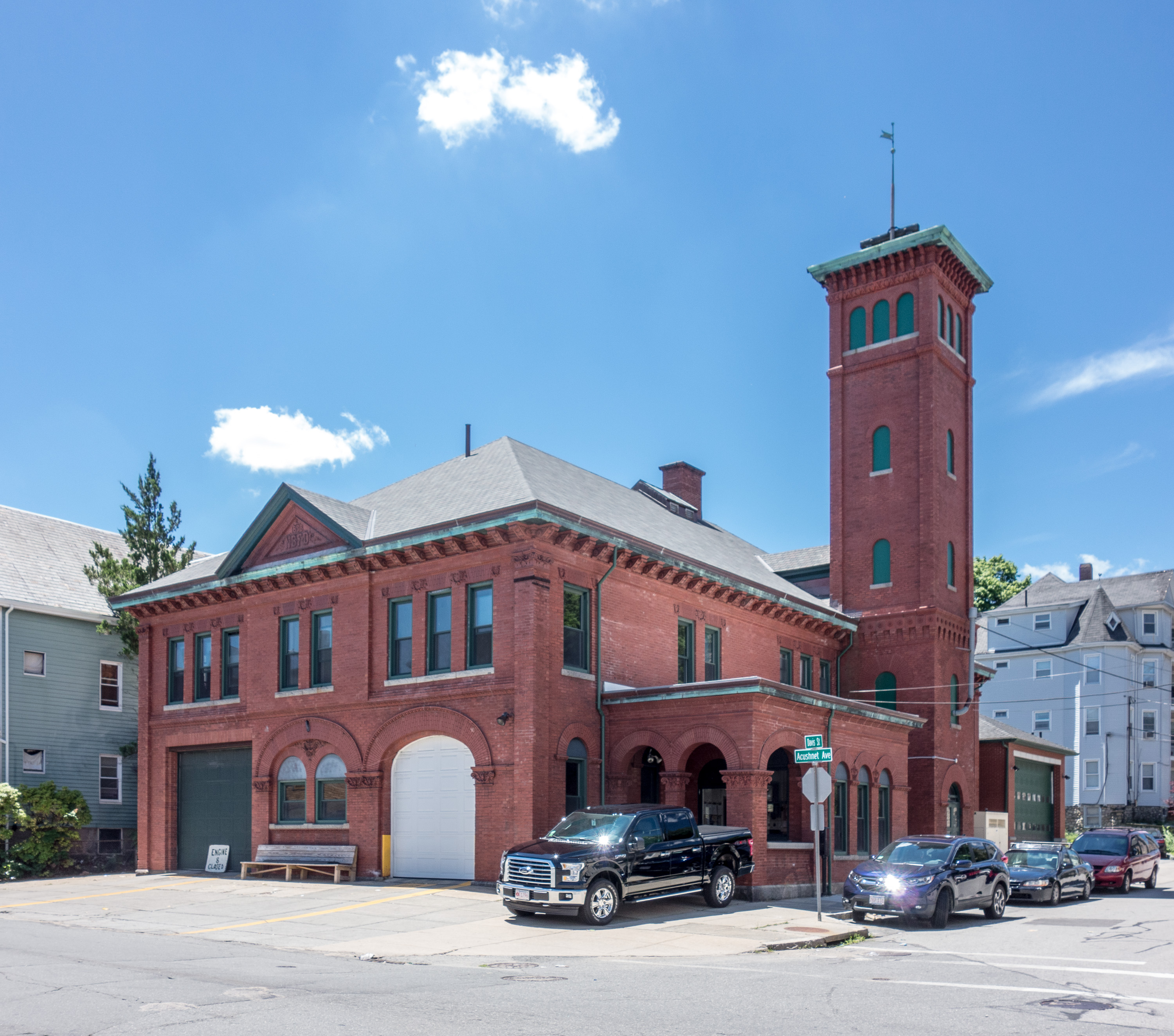 Engine 8, Acushnet Ave, New Bedford, Massachusetts